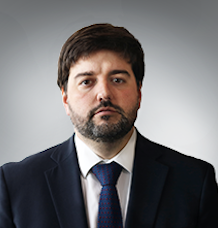 Official photo of Francisco López Díaz as Undersecretary of Energy in 2019